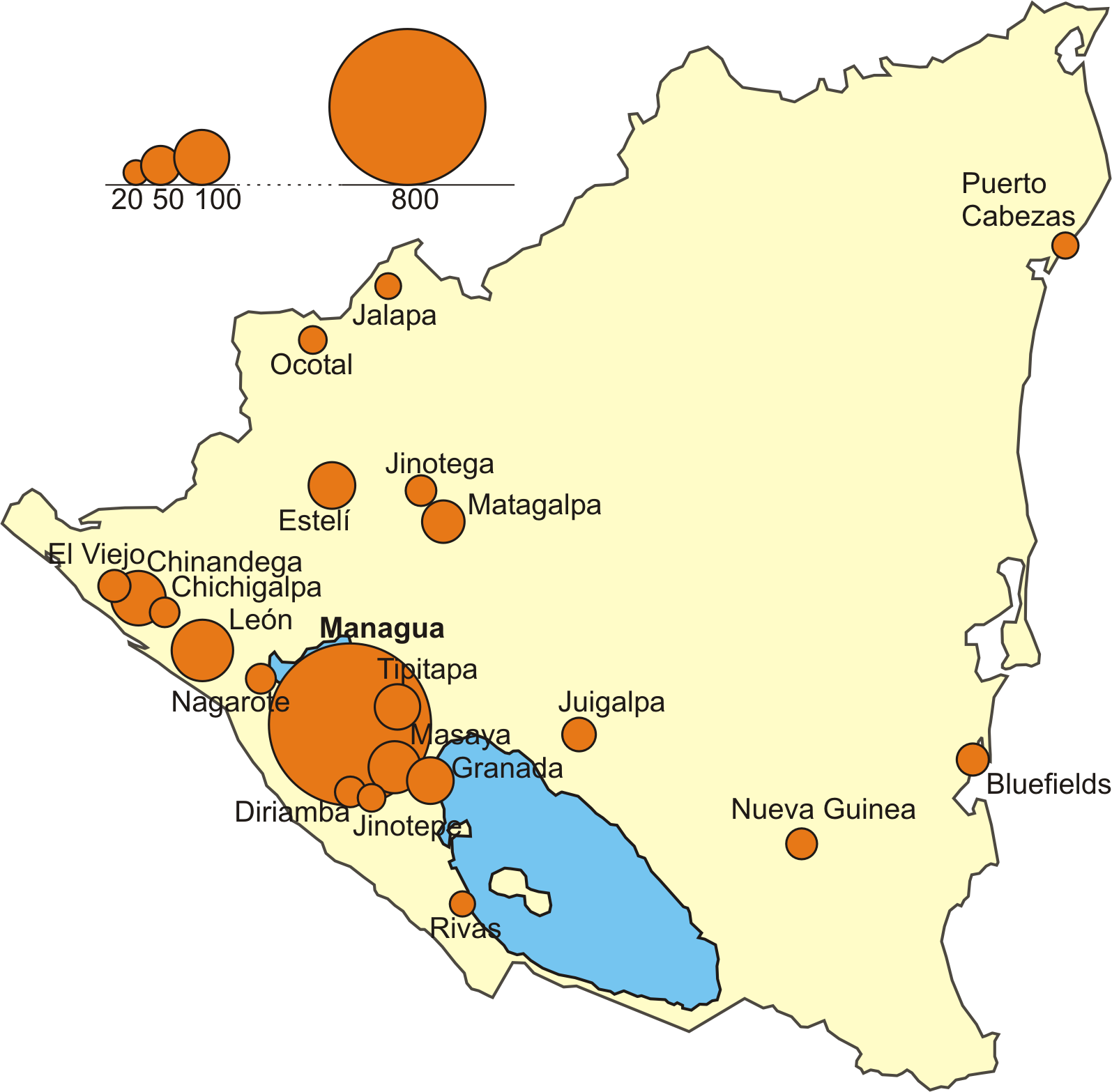 Map of Nicaraguan cities over 20 thousand inhabitants, according to 1995 census